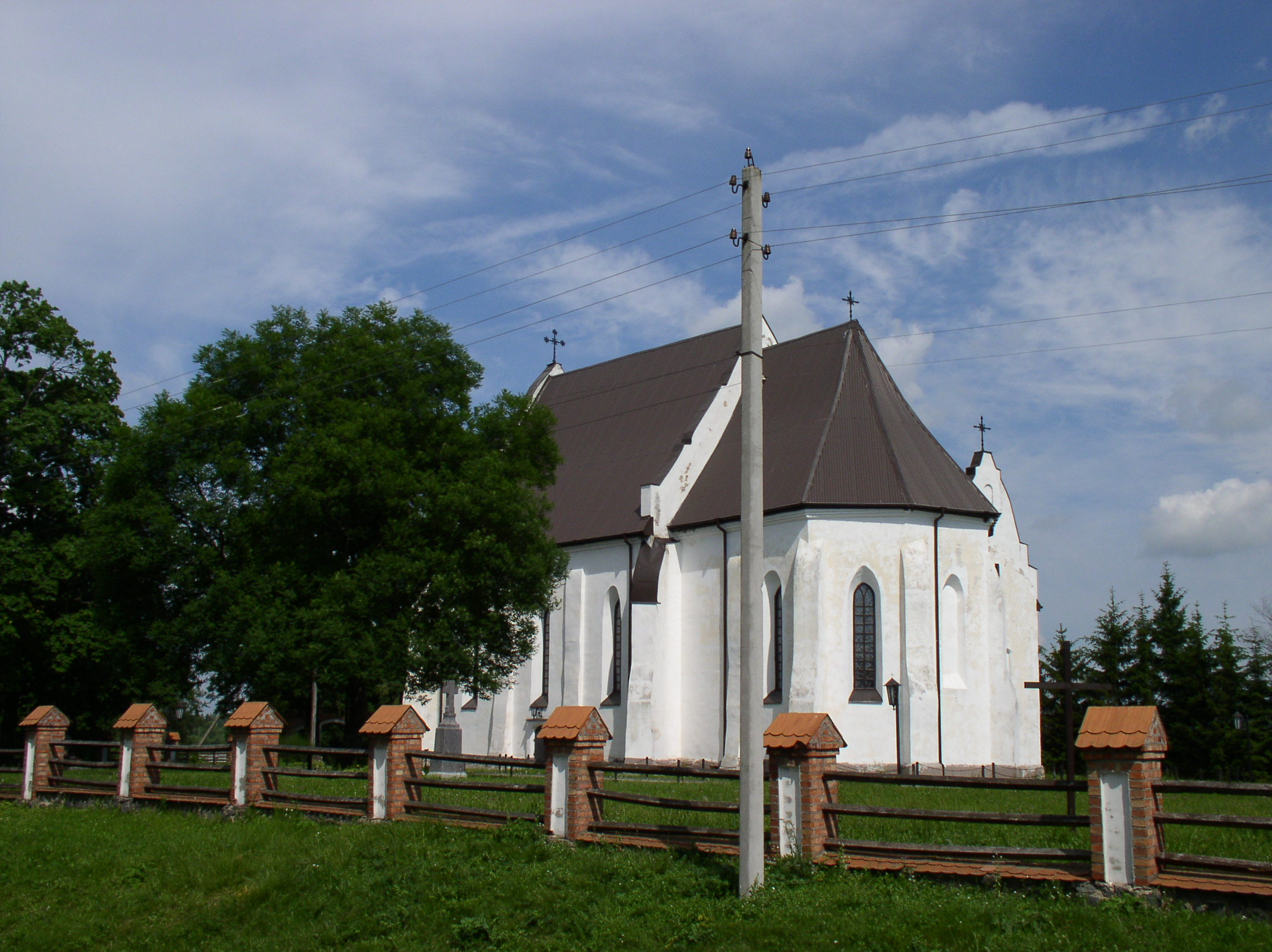 Church of Holy Trinity. Ishkaldz, Belarus.